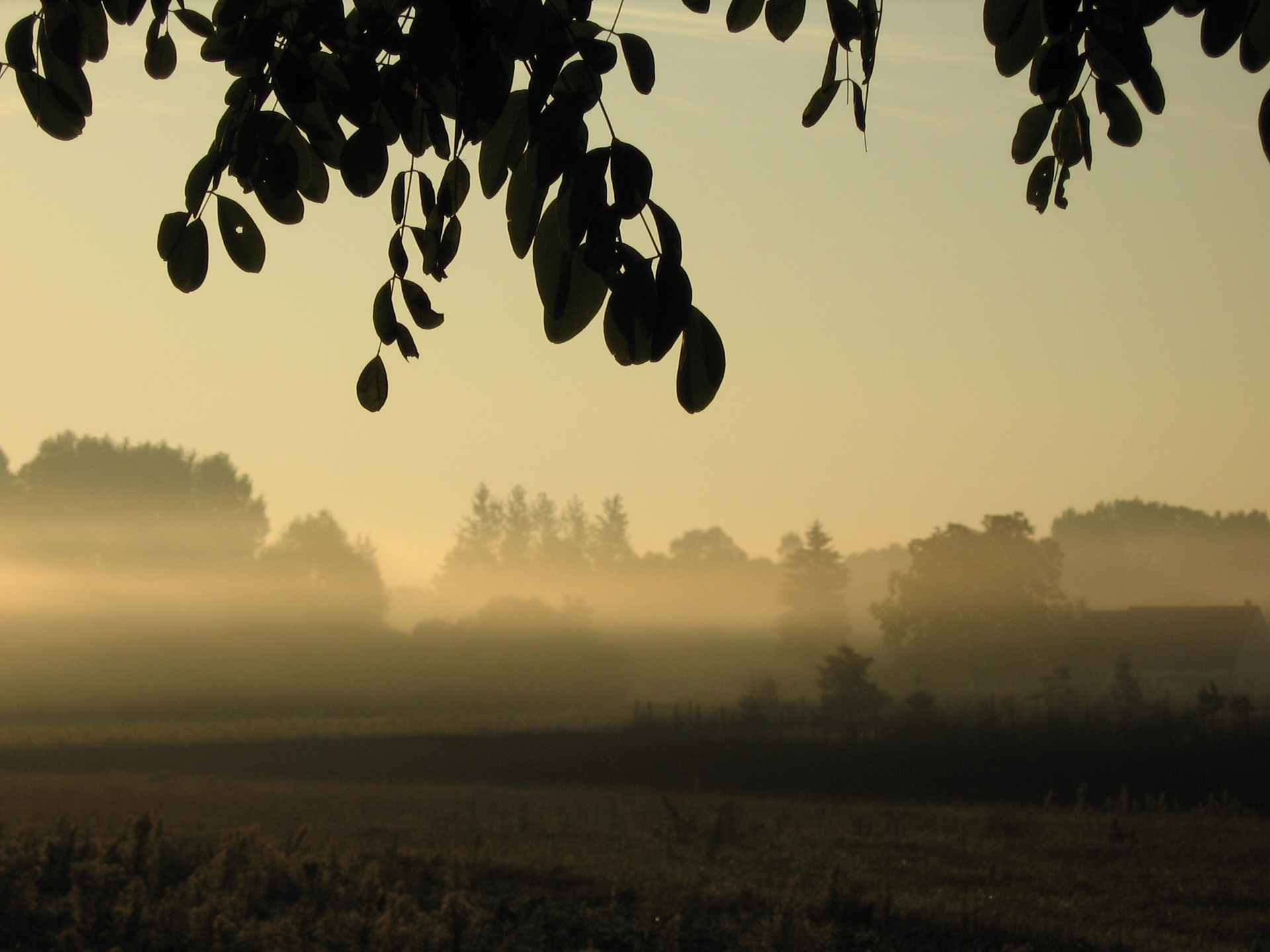 Landscape around Larchant - Ile-de-France